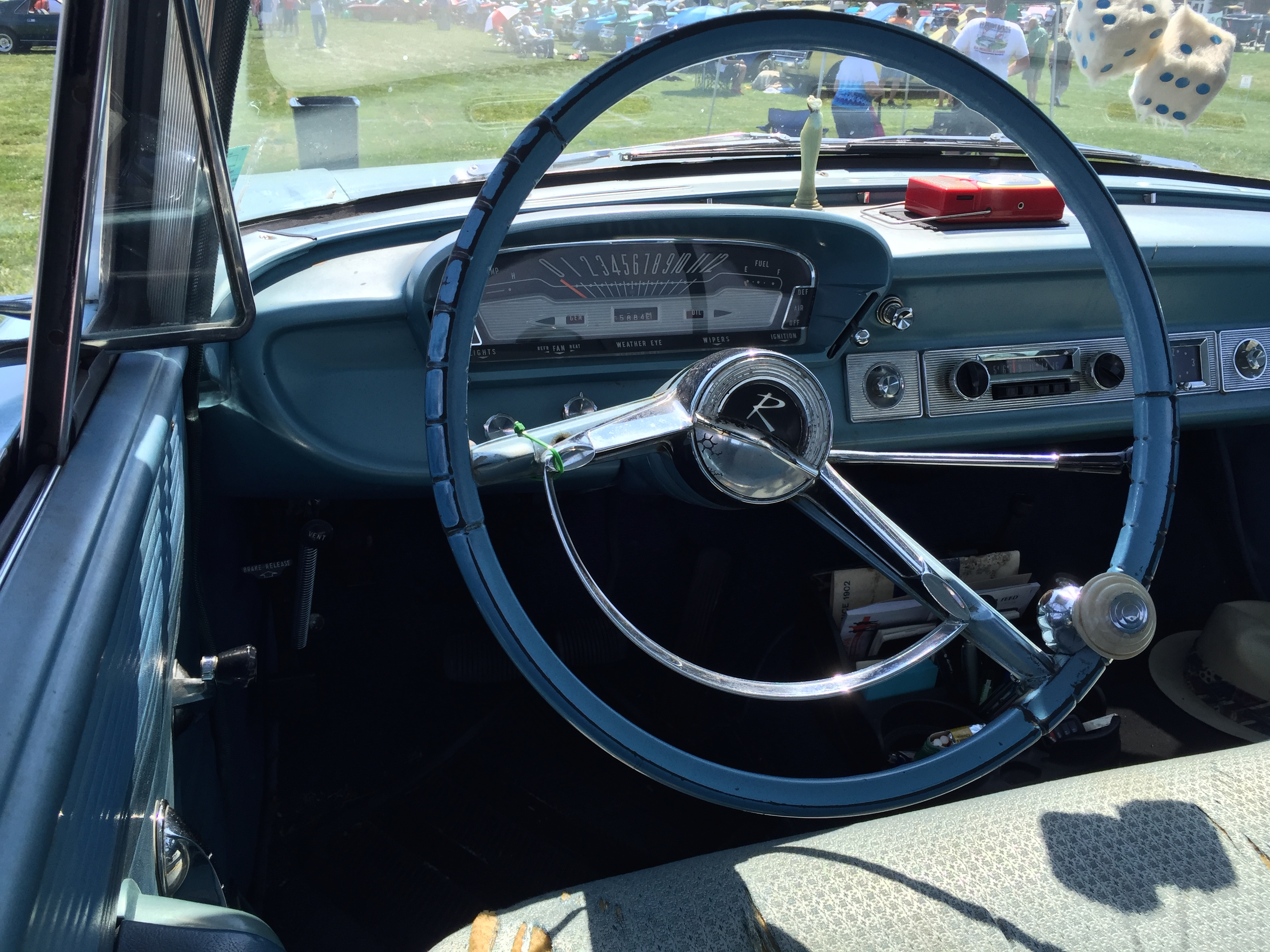 1962 Rambler Classic Custom, a 4-door sedan built by American Motors Corporation (AMC). This car is finished in Sonata Blue, with a matching blue interior. The steering wheel has an aftermarket Brodie knob, often called a "necker knob". Picture taken at the American Motors Owners Association (AMO) annual convention that was held July 2015 near Cleveland, Ohio.